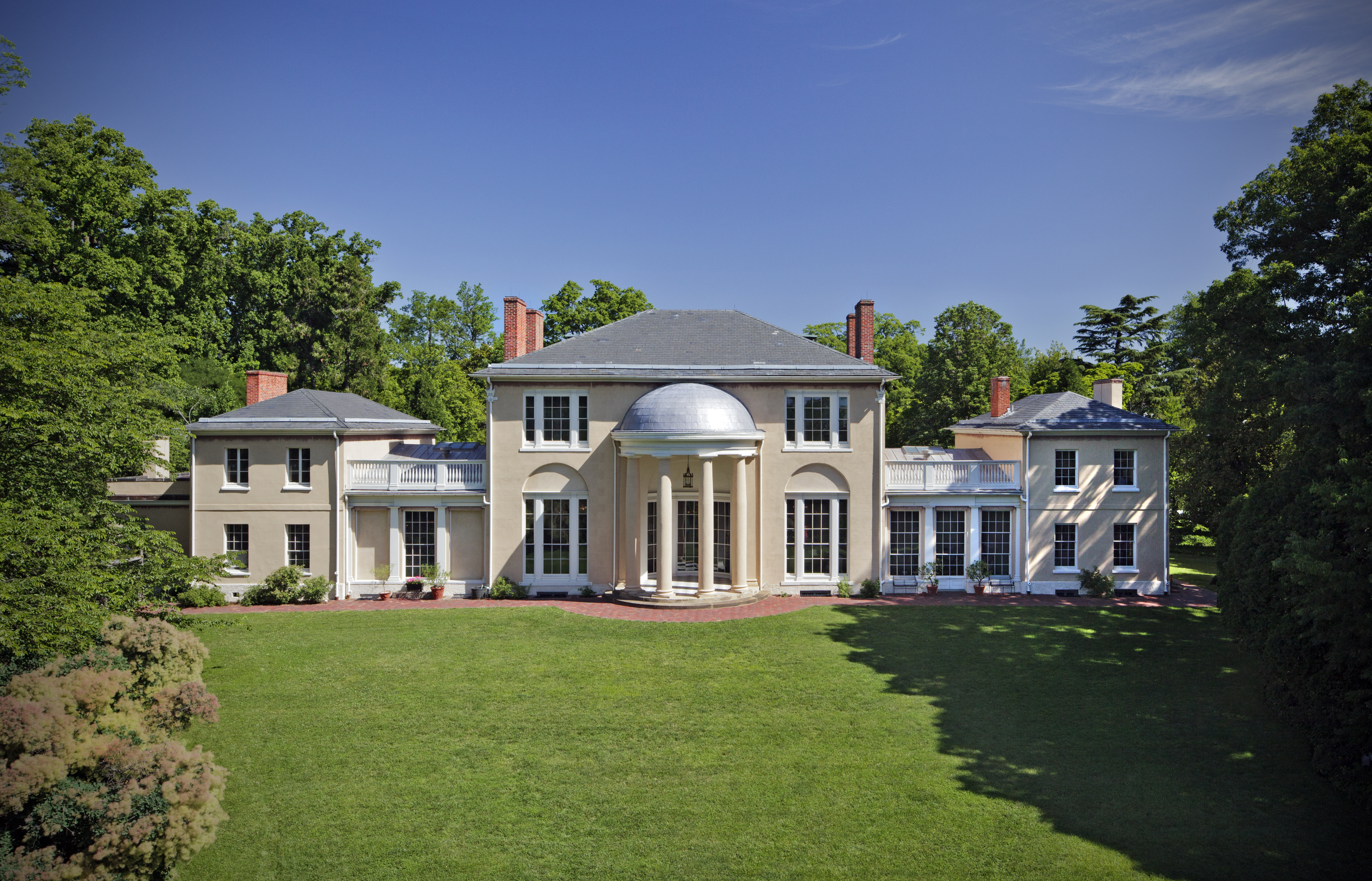 If used, link to